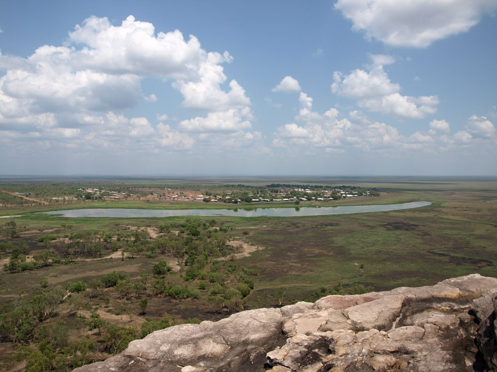 A view of the township of Oenpelli from nearby Injalak Hill